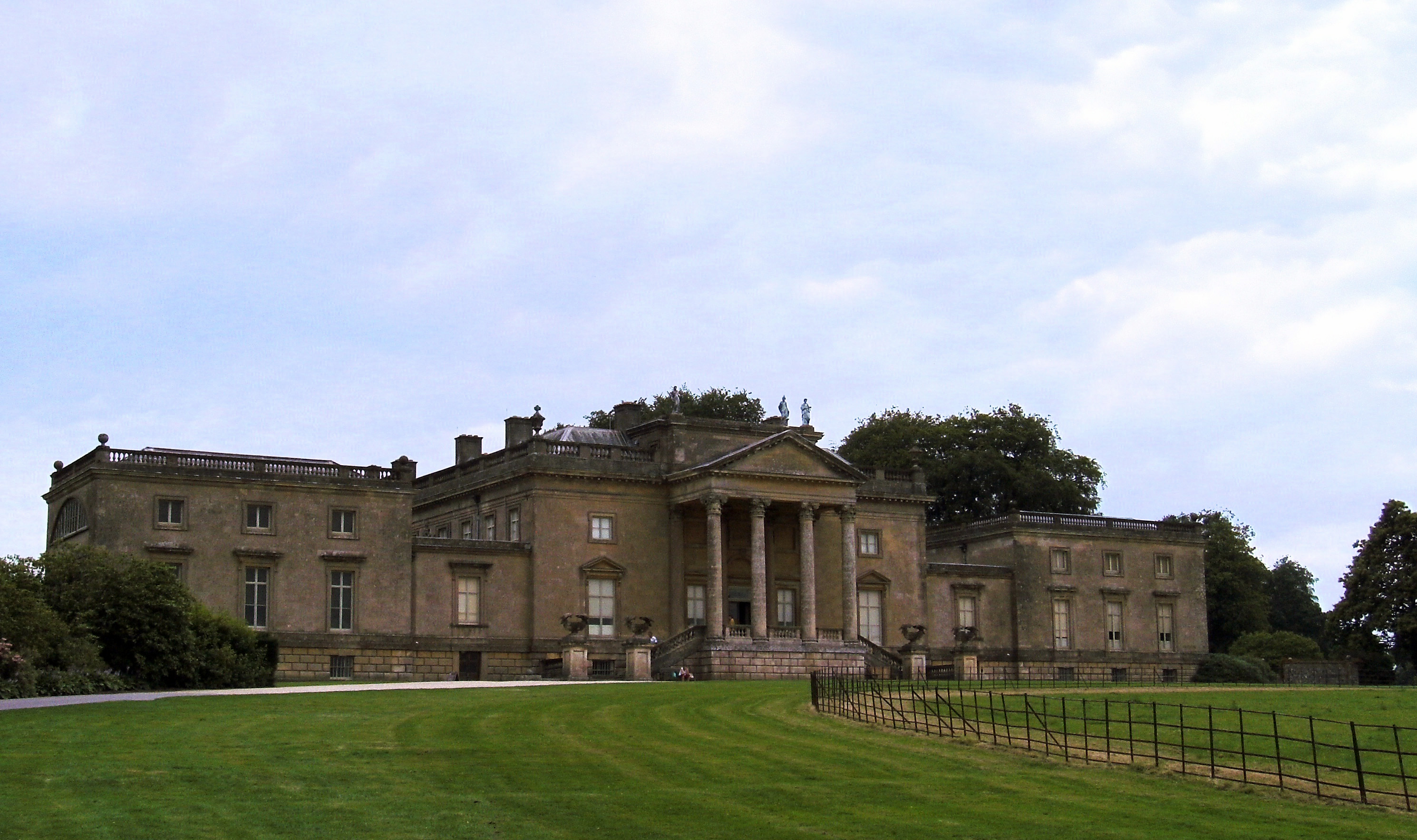 Stourhead House, Wiltshire, UK